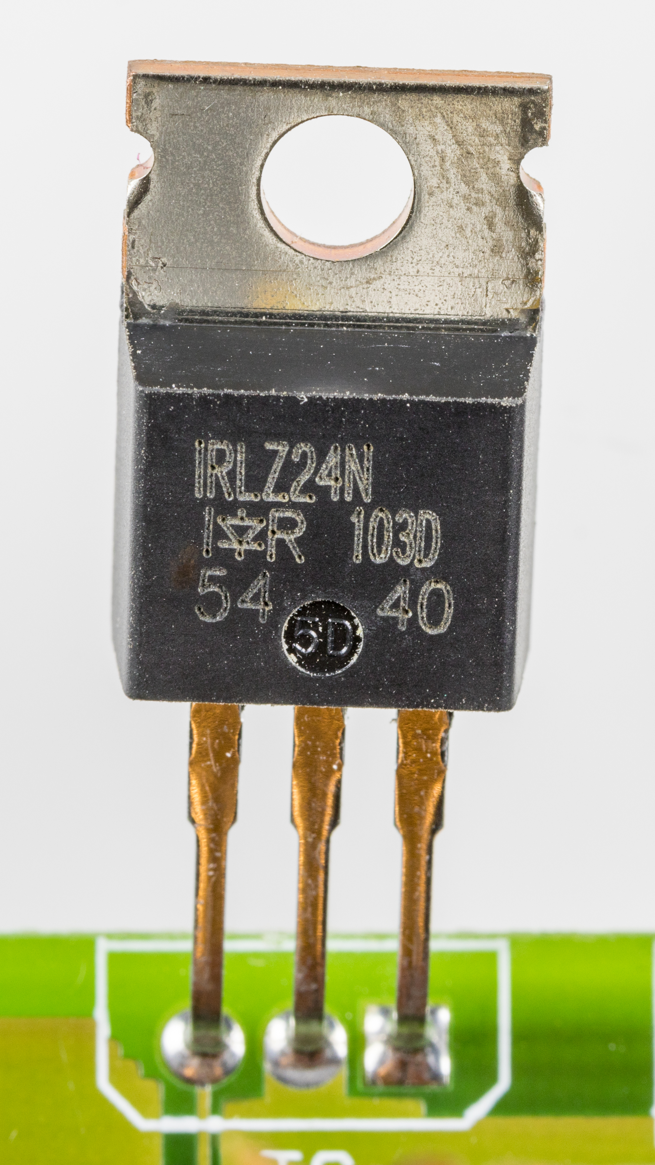 Nedap ESD1 - power supply board 2 - International Rectifier IRLZ24N - HEXFET Power MOSFET. Package: TO-220